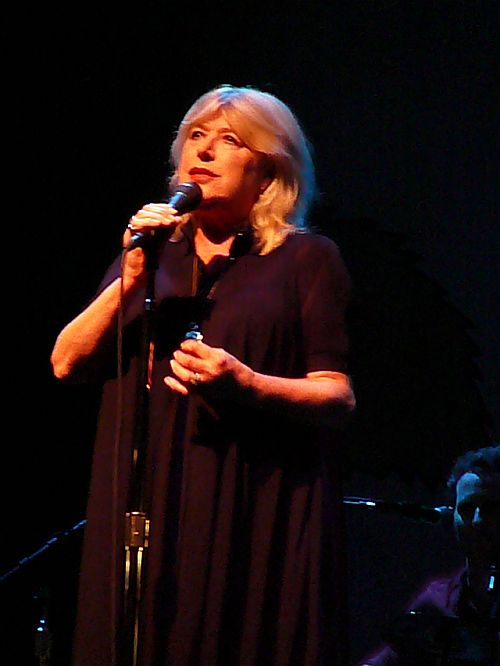 Picture of singer Marianne Faithfull